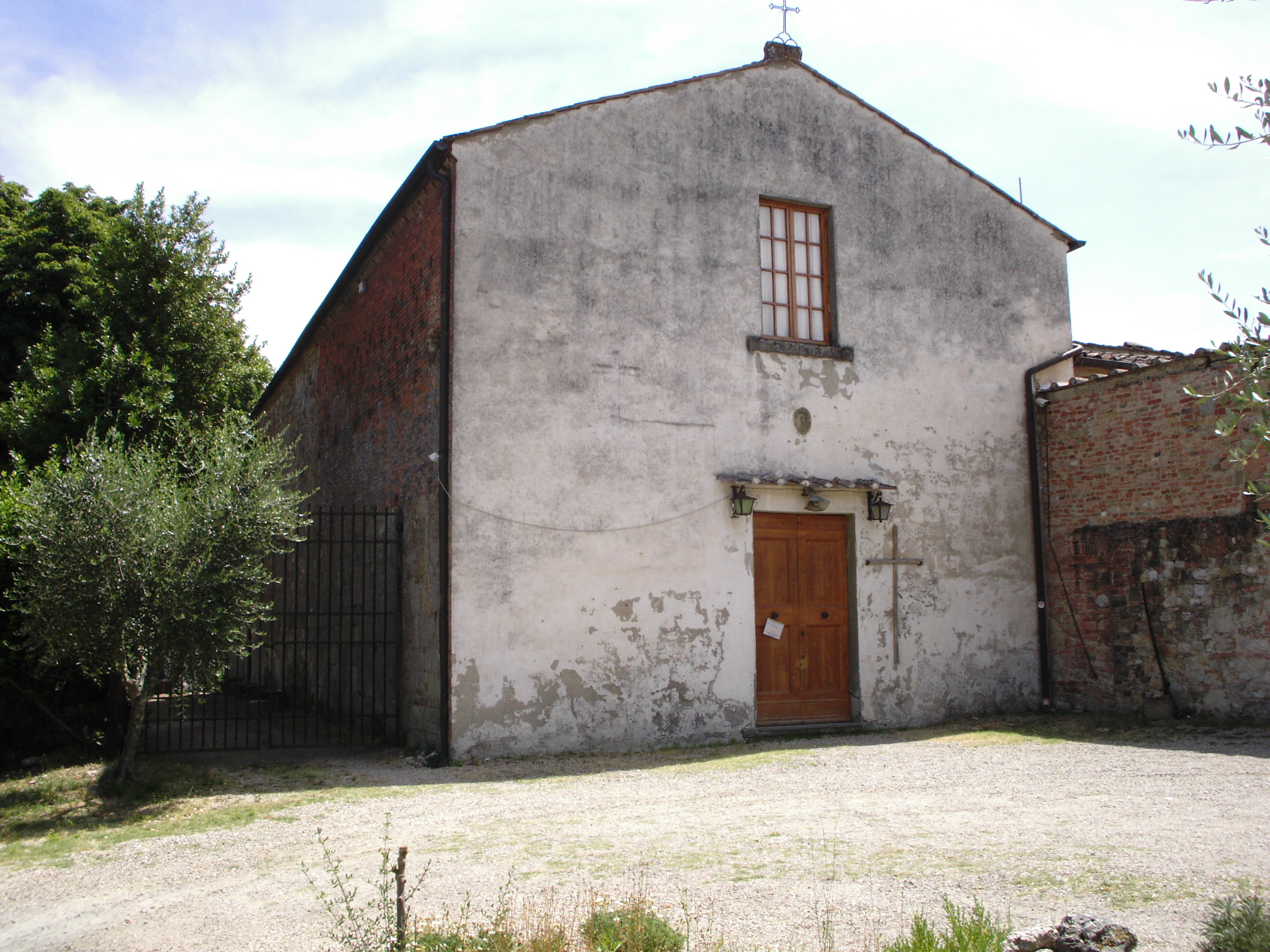 Gambassi Terme, Abbey of St Peter at Cerreto